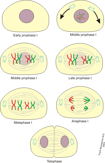 Meiosis Stage I